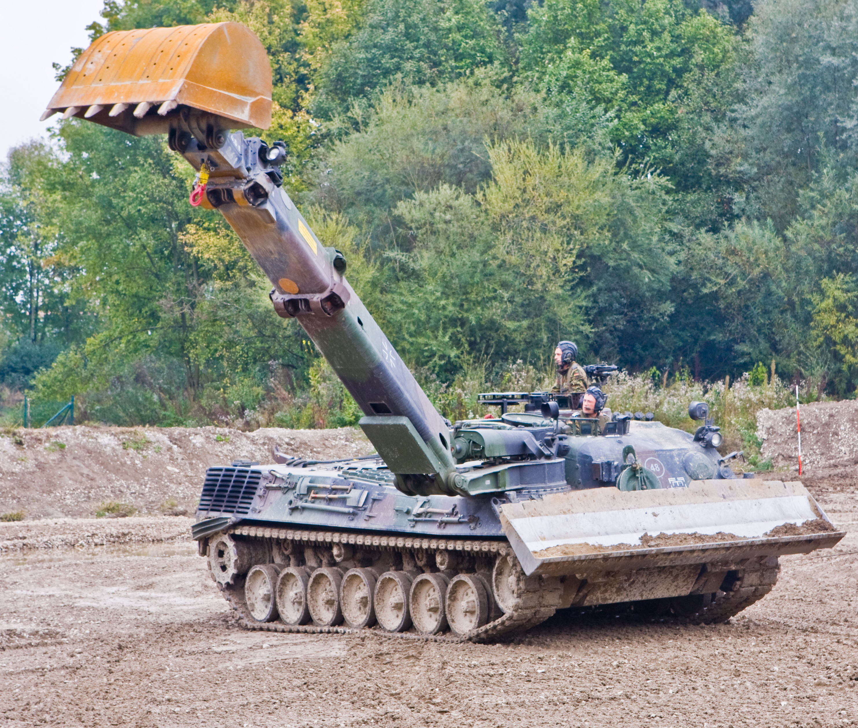 The Pionierpanzer Dachs is an Armored Engineering Vehicle (AEV) based on the Leopard 1 Main Battle Tank Chassis.